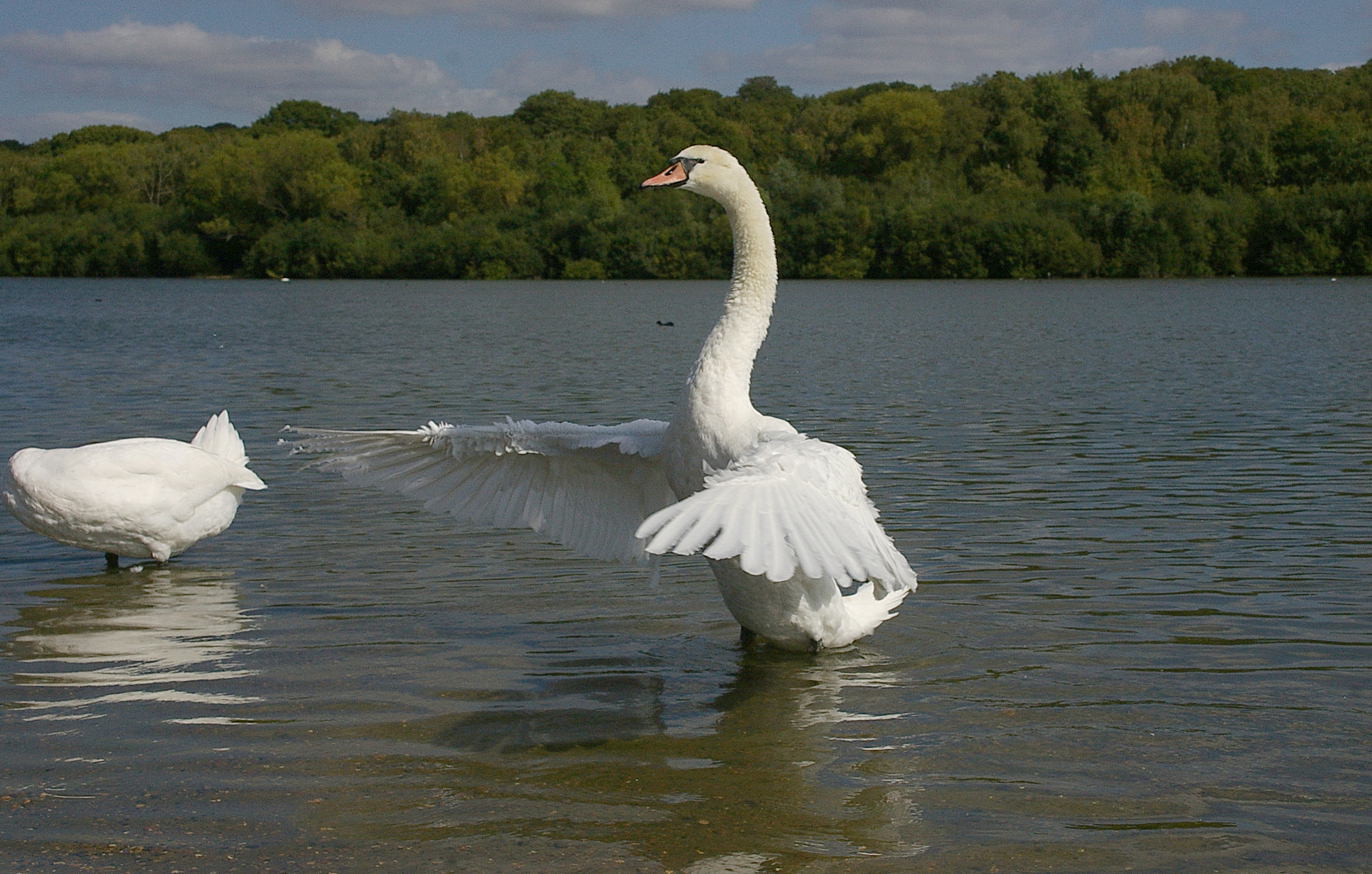 Swans at Ruislip Lido.